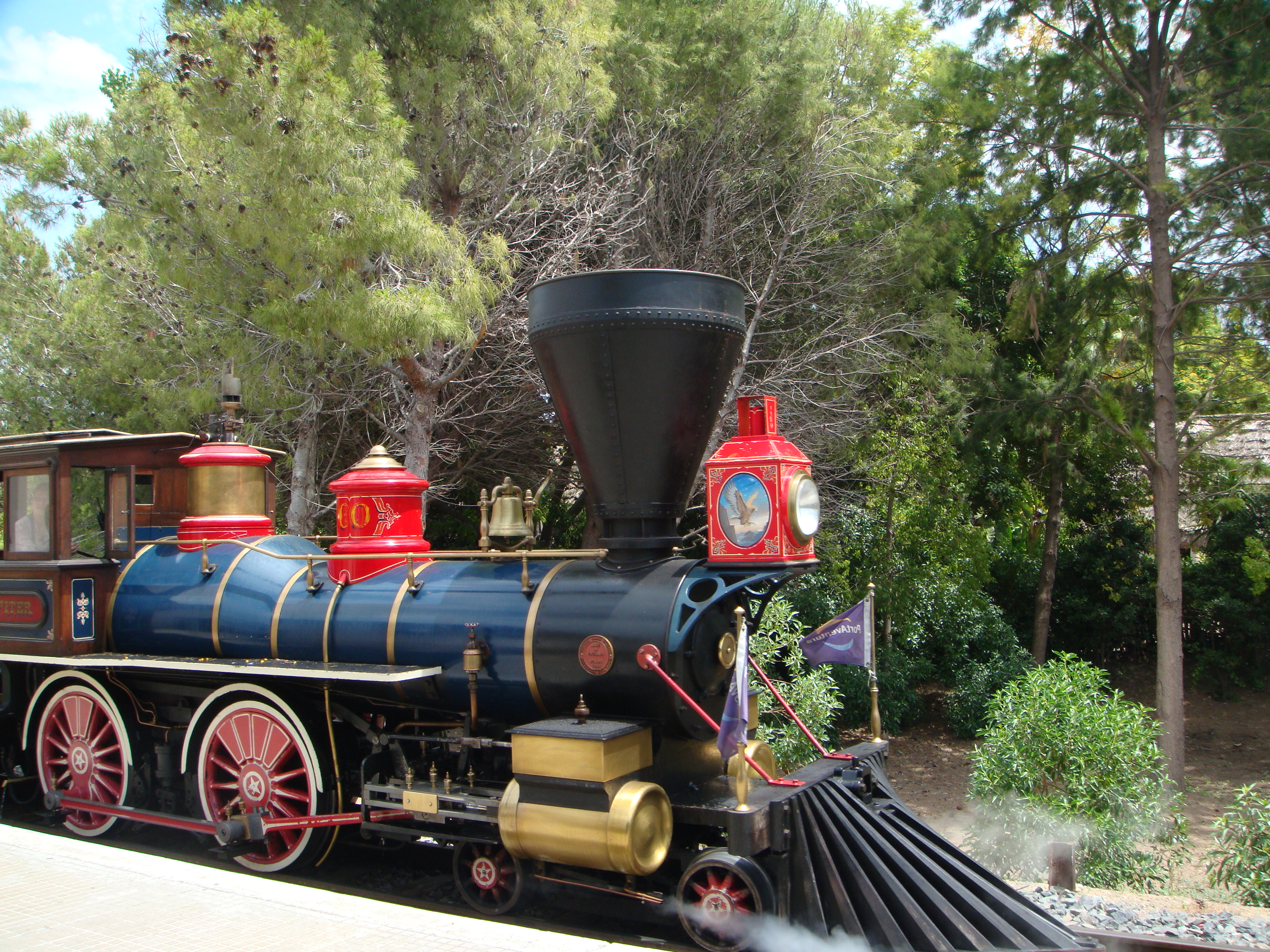 Train in Port Aventura.